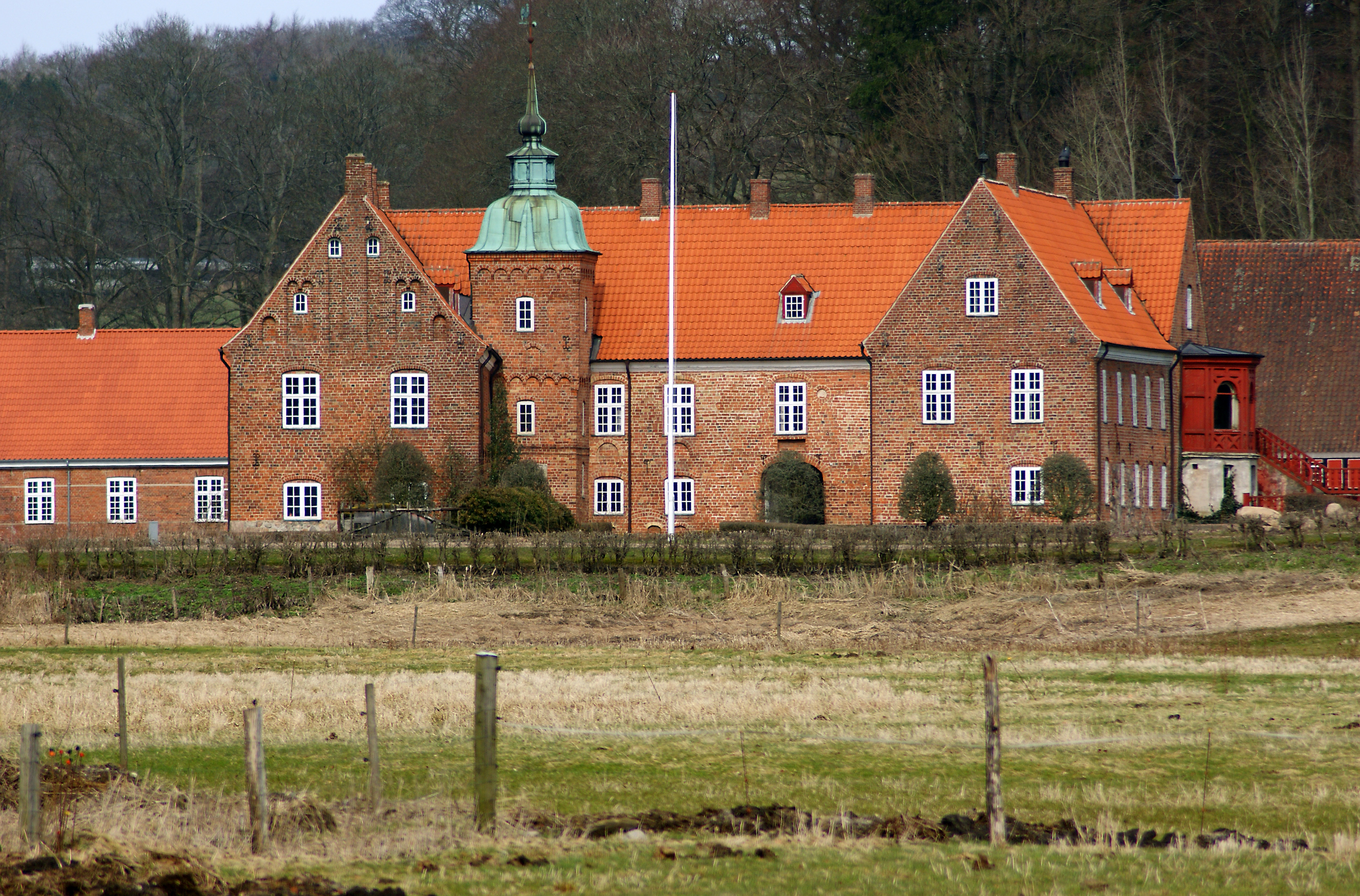 Tirsbæk Manor near Vejle in Denmark